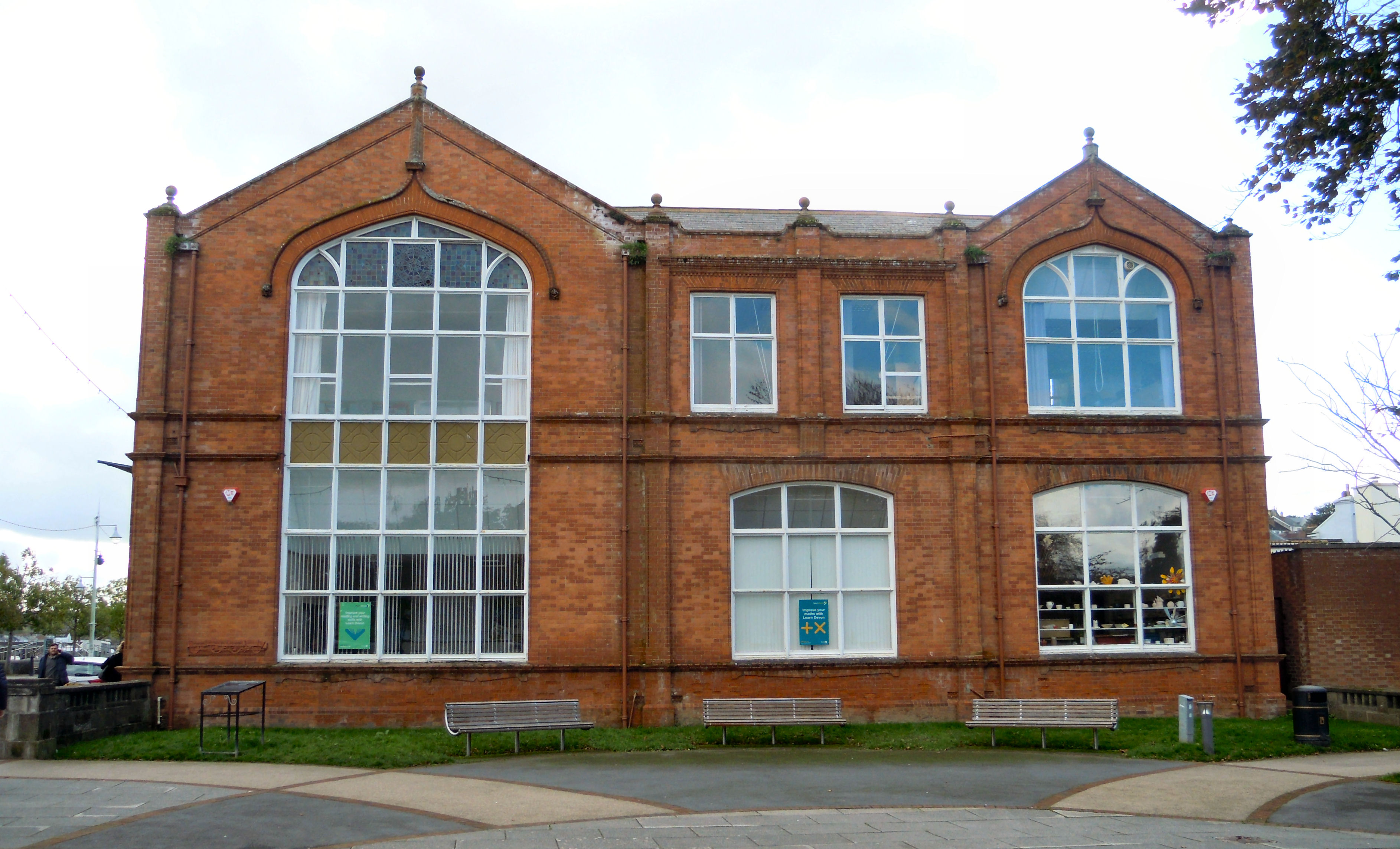 The rear of the former Bideford Art School showing the large windows required for the art studios